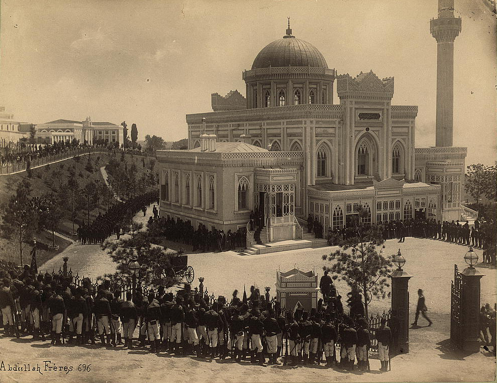 The Selamlik (Sultan's procession to the mosque) at the Hamidiye Camii (mosque) on Friday